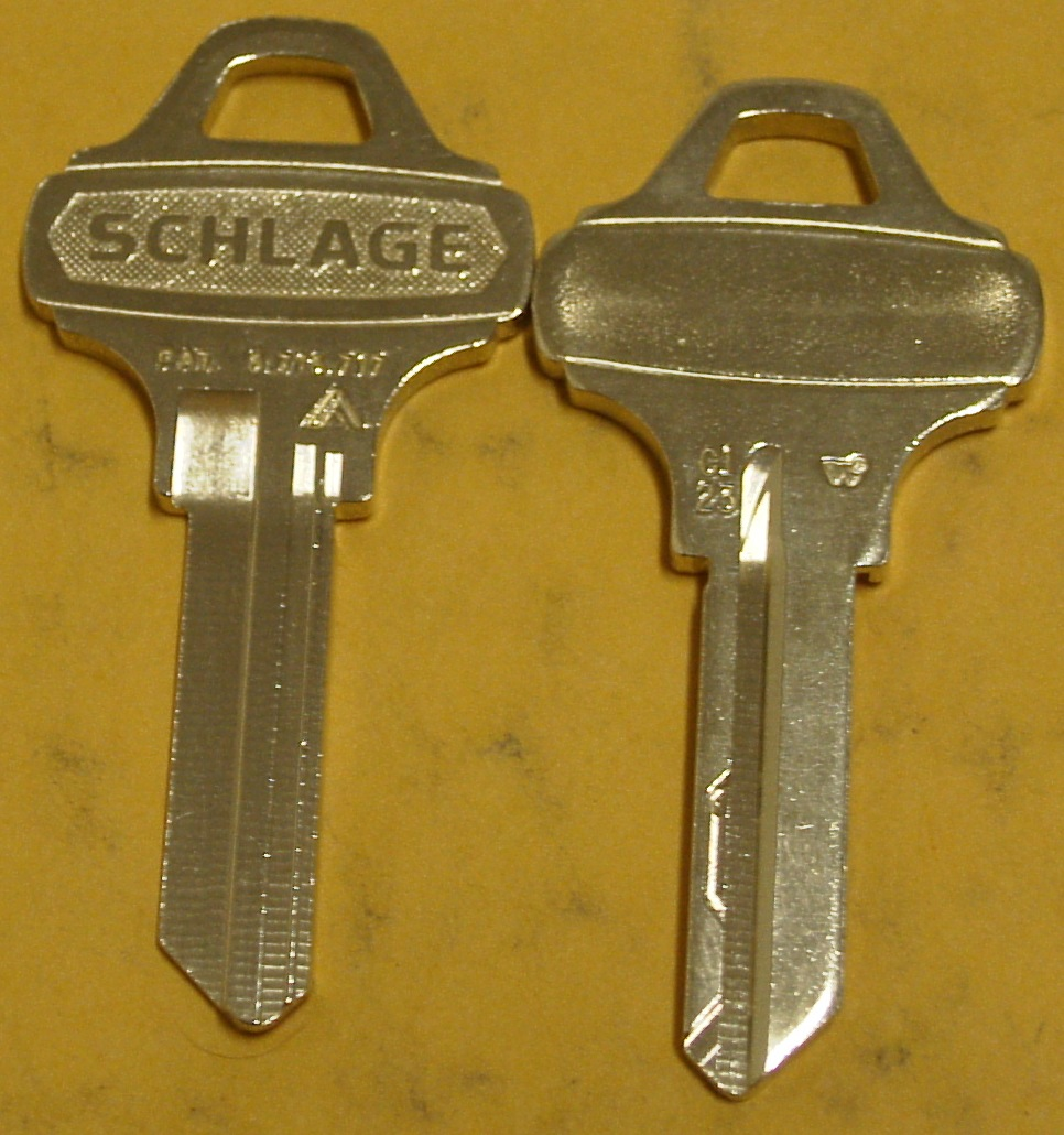 Schlage Everest C123 key blanks